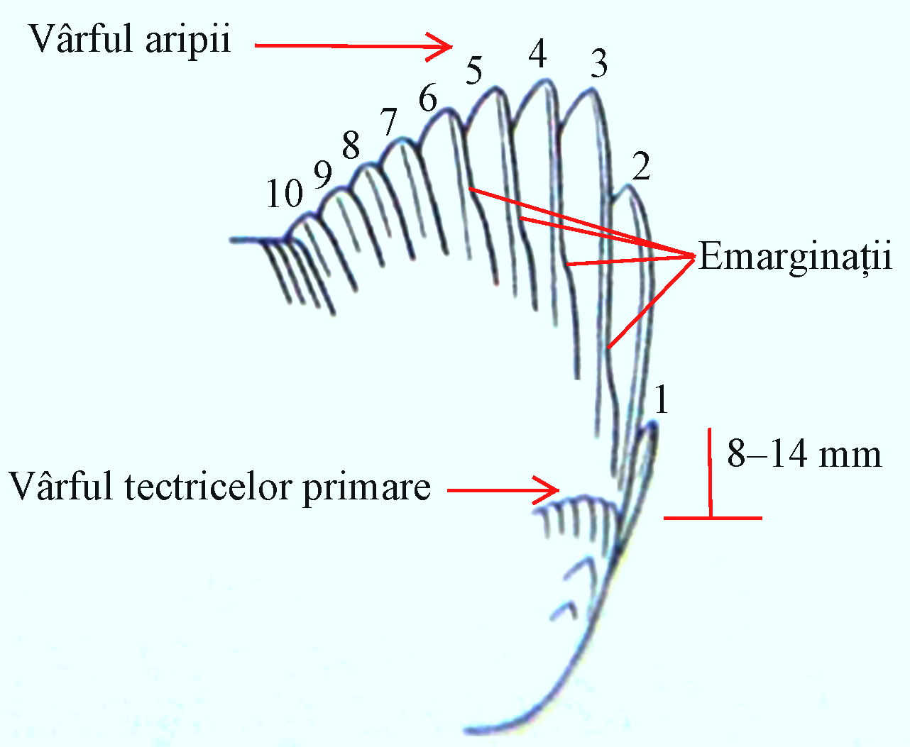 Phylloscopus fuscatus. Wing formula